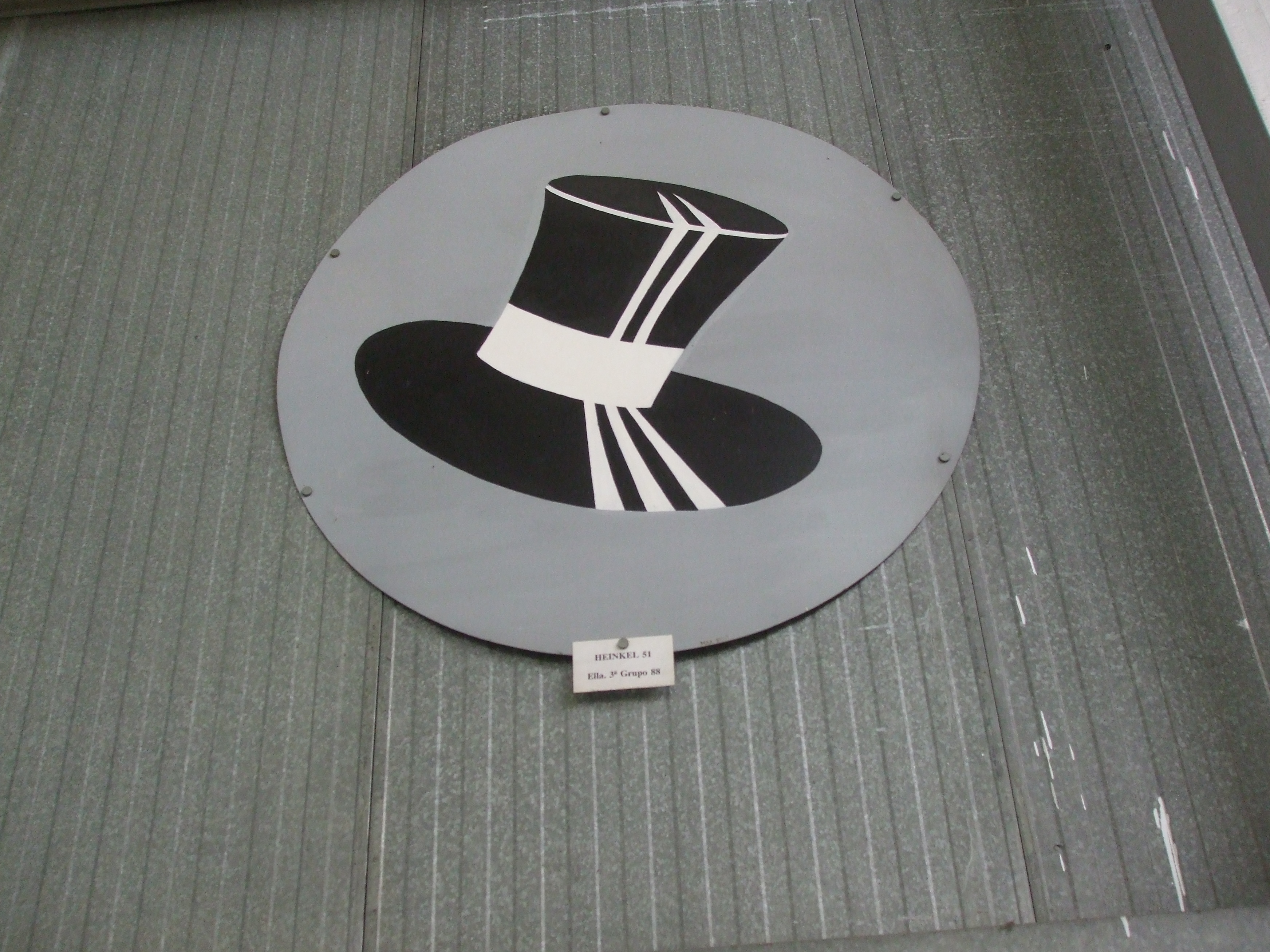 "Zylinderhut" badge of 2. Staffel/Jagdgruppe 88 (2./J88). Fighter group 88 was one of the major units of the German Legion Condor during the Spanish Civil War between 1936 and 1939.